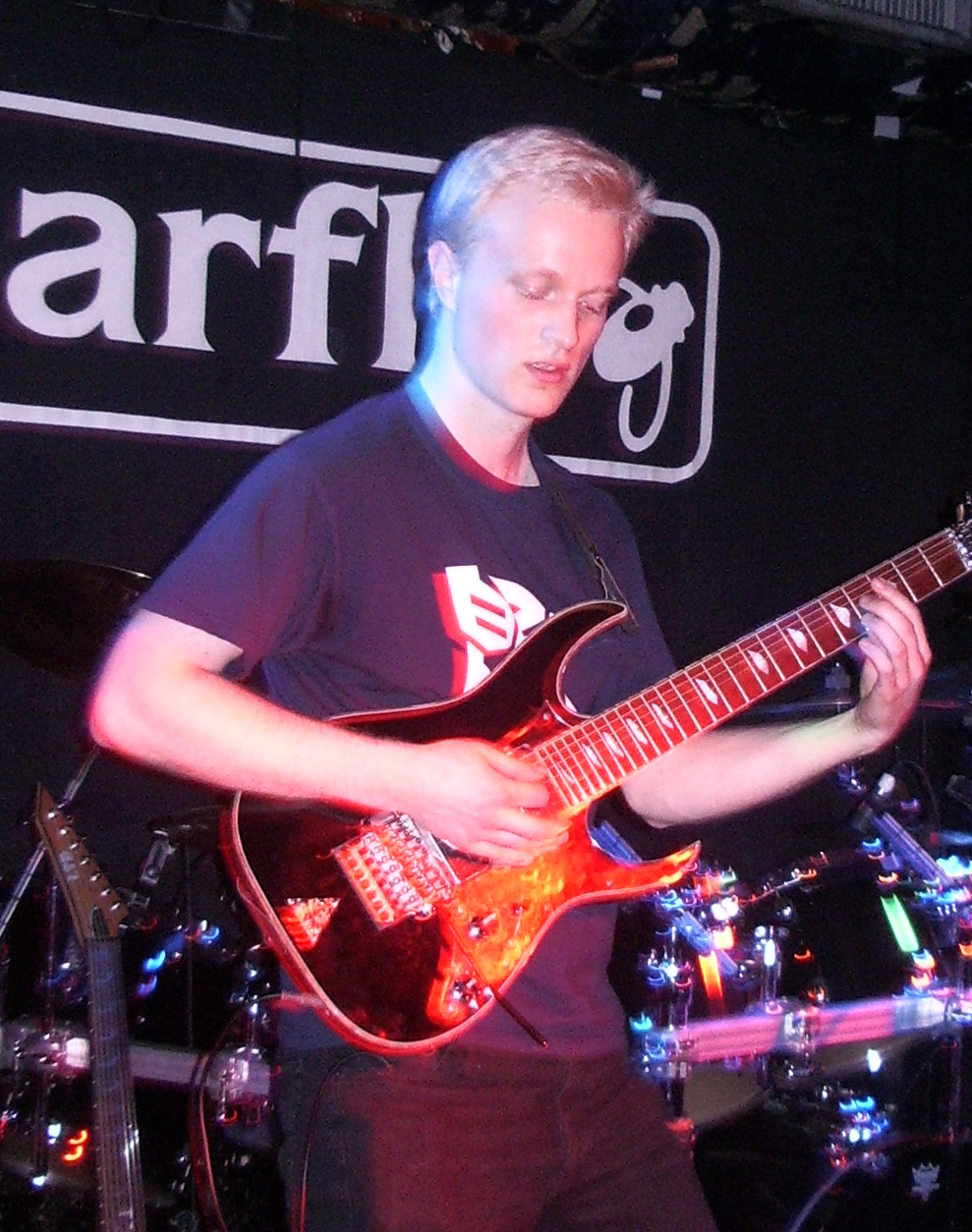 Tom MacLean performing with To-Mera at The Monarch in London on 29th March 2007.